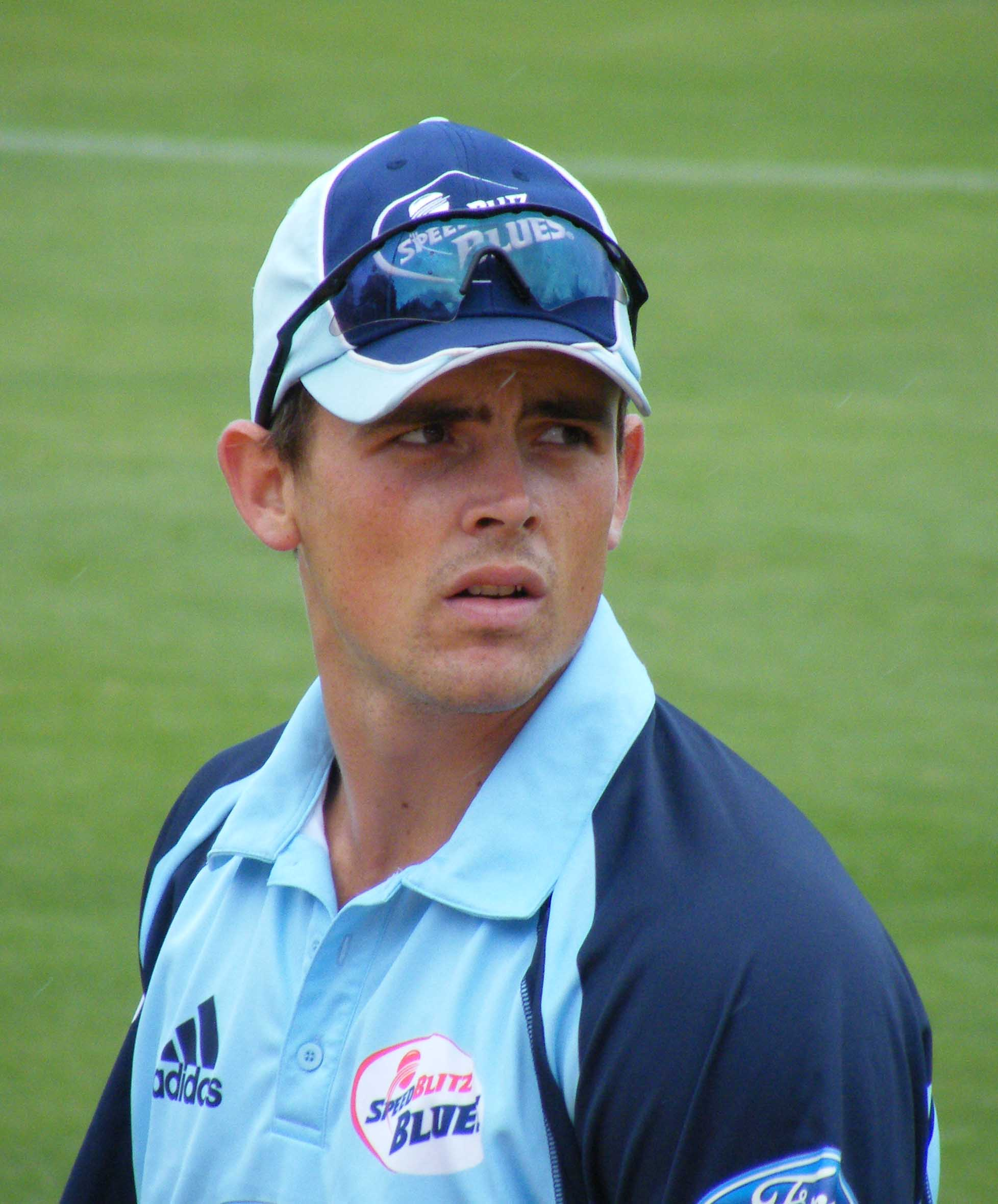 NSW Cricketer Stephen O'Keefe - NSW v Tasmania, Hurstville Oval. Saturday 29 November 2008.